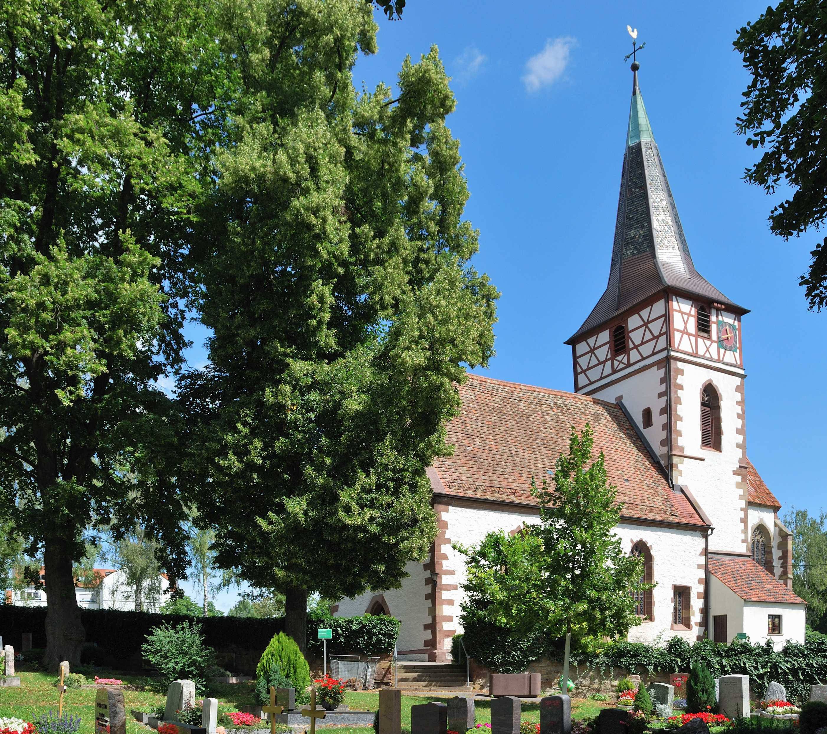 Speyrer church in Ditzingen in Baden-Württemberg in Germany. The church is used today as a cemetery church and as a room for cultural events.